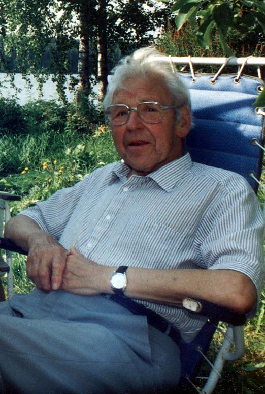 Swedish Senator R. Stig Stefanson, as released by image owner FamSACPlace: Standers, Sjöbovägen, Smedjebacken, Sweden